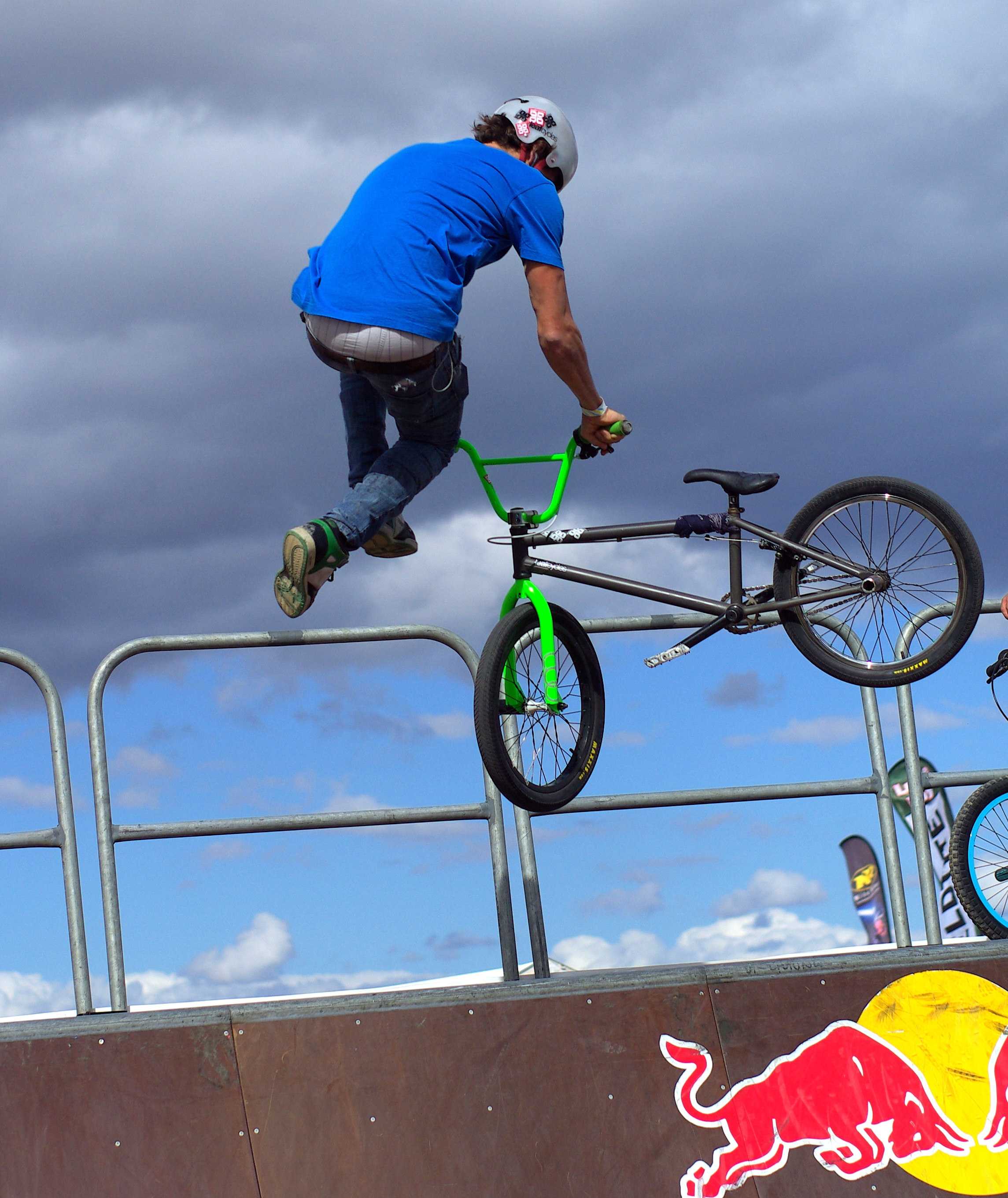 A tailwhip being performed on a BMX by Joe Dodd, Leaf Cycles Australia team rider at World MTB championships in Canberra, 2009.